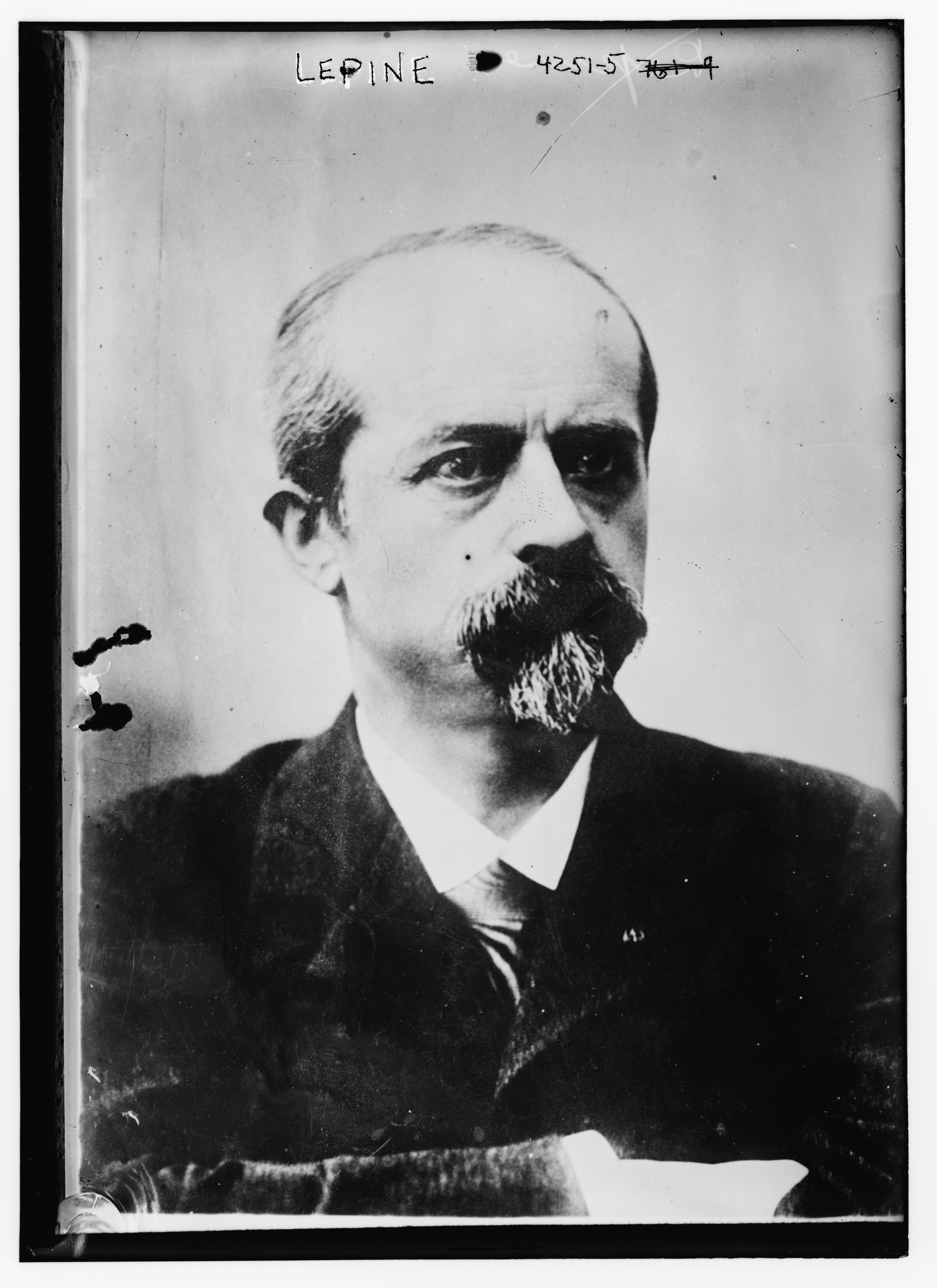 Louis Lépine circa 1917